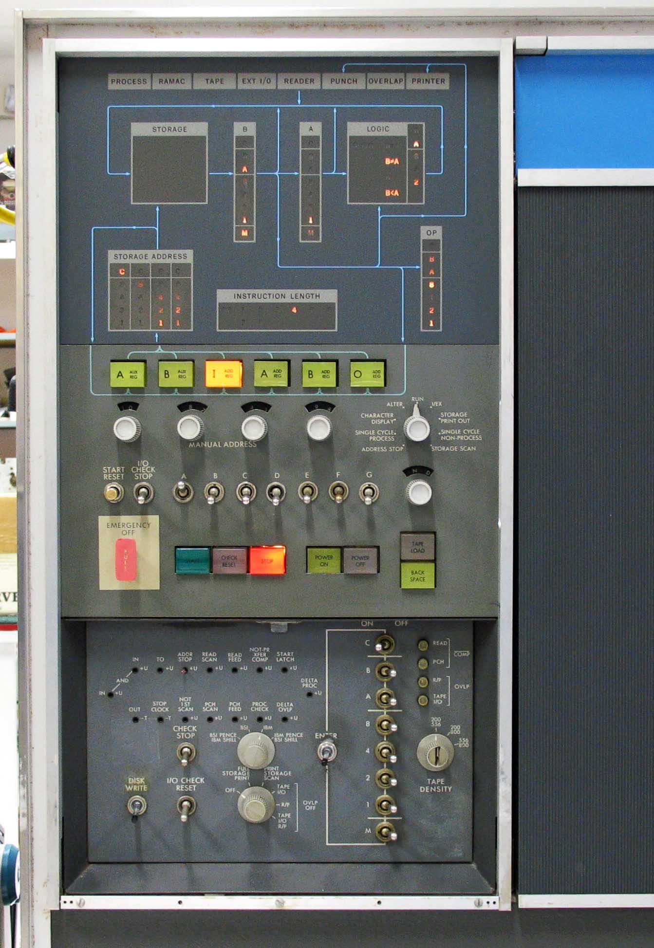 Operators Control Panel on a restored IBM 1401 computer at the Computer History Museum in Mountain View, CA. Photo by Michael Holley, November 2007. Taken with a Canon PowerShot A630 (1/13 second and F/2.8) with existing light.